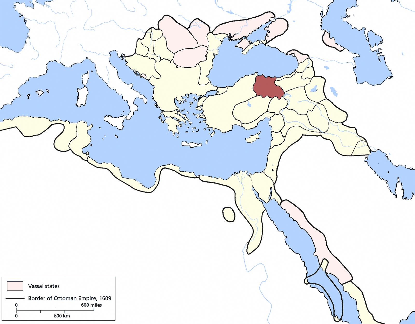 Sivas Eyalet, Ottoman Empire (1609). Source: Encyclopedia of the Ottoman Empire at Google Books By Gábor Ágoston, Bruce Alan Masters